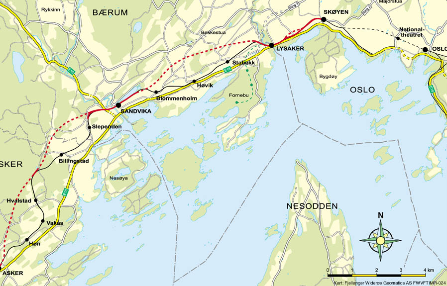 Map of the Asker Line west of Oslo, Norway. Red line is the Asker Line and black line is the Drammen Line. Dotted lines are tunnels. Black dots are stations. The green line is the Fornebu Line. The yellow lines indicate European Routes E16 and E18.